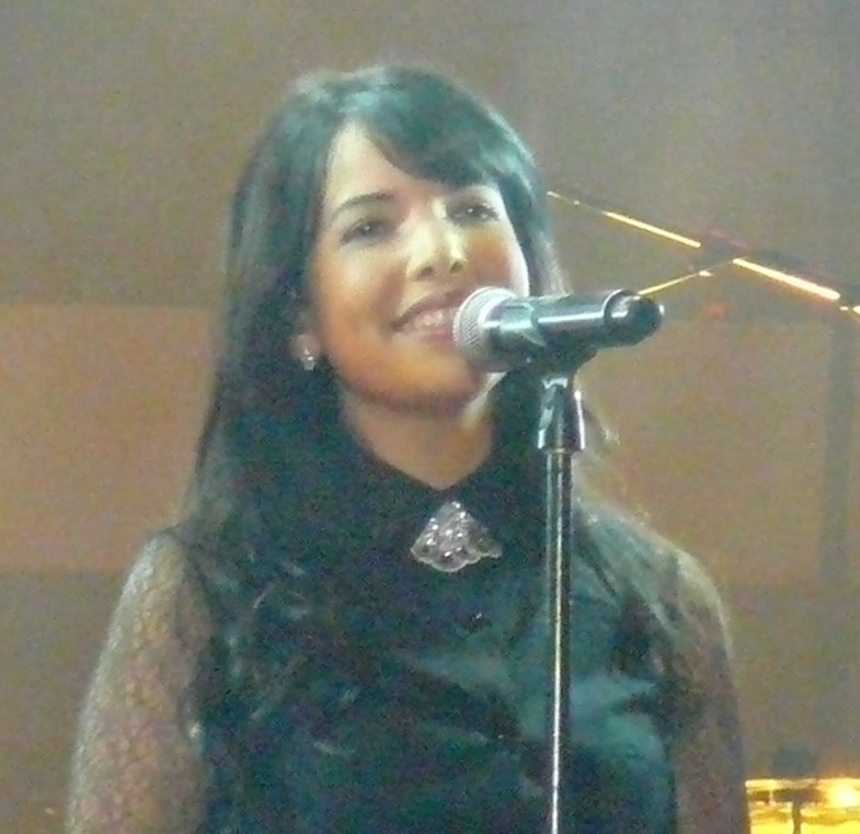 Indila on stage on the Grand-Place in Brussels (Belgium), on September 26, 2014, for the Feast Day of the French Community.